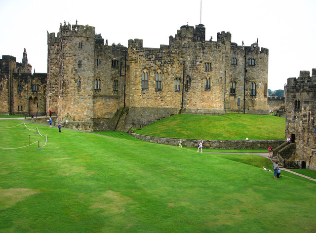 Alnwick Castle